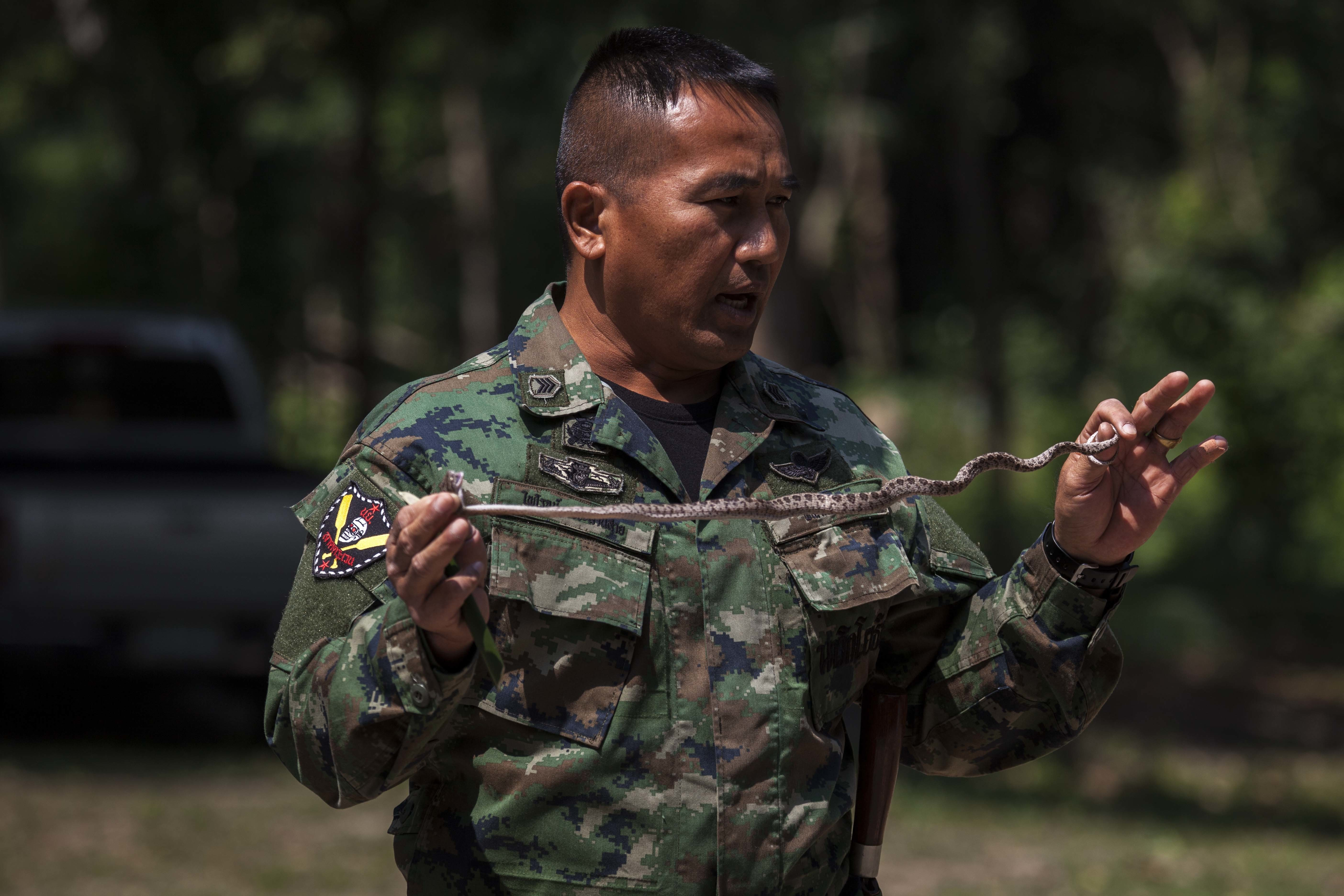 Royal Thai Marine CPO1 Prasansai "The Snakeman" Pairoj shows the U.S., Thai, and Republic of Korea a baby viper snake during jungle survival training led by the Royal Thai Reconnaissance Marines during Cobra Gold 16, Sattahip, Thailand, Feb. 8, 2016. Cobra Gold in its 35th iteration, is designed to advance regional security and ensure effective responses to regional security crises by bringing together a robust combined task force from partner nations sharing common goals and security commitments in the Indo-Asia-Pacific. (Photo by GySgt Ismael Pena/Released) Unit: 31st Marine Expeditionary Unit